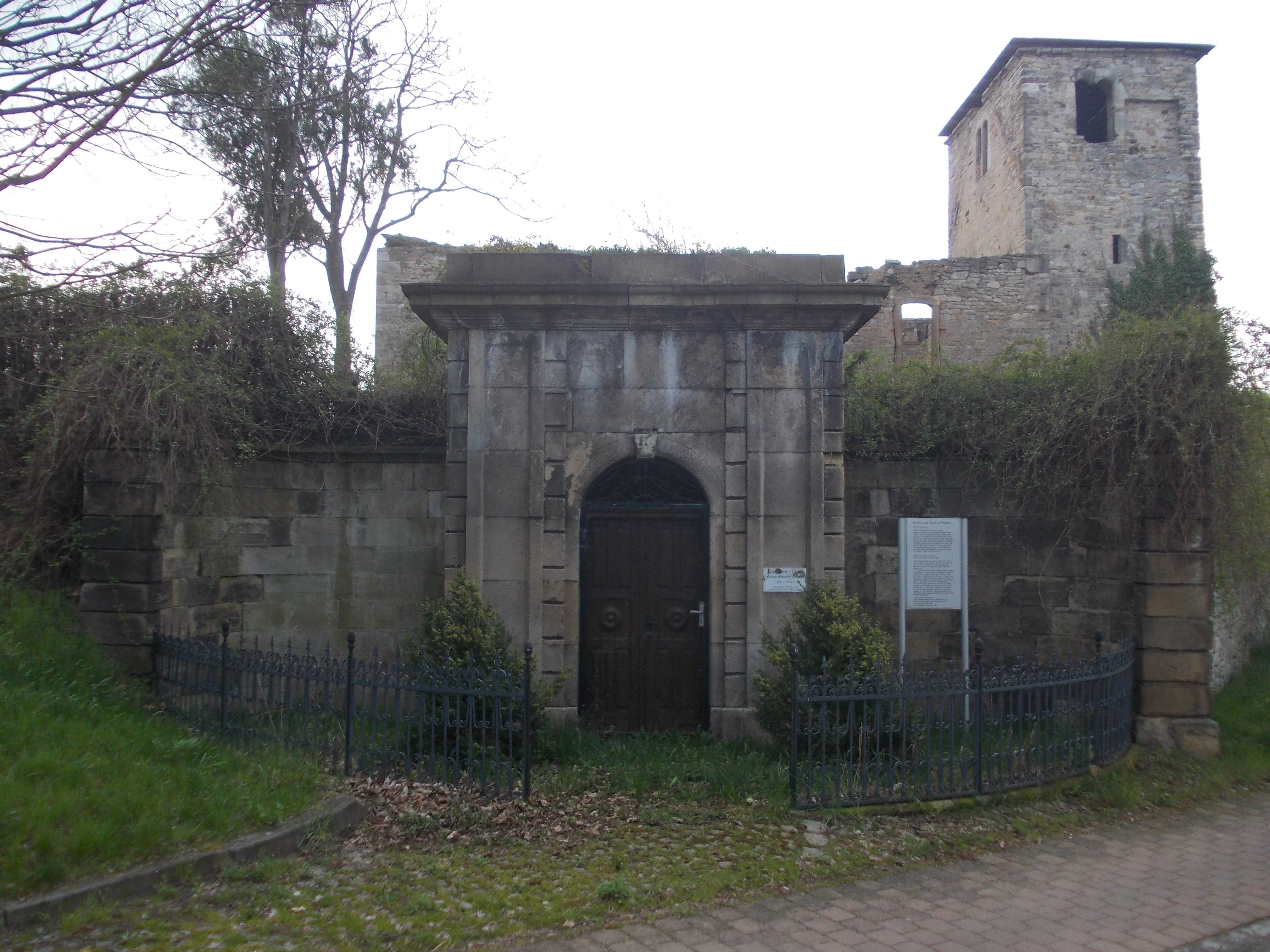 Tomb of Johann Christian Schubart Edler vom Kleefeld and St. Gangolf's Church in Pobles (Lützen, district: Burgenlandkreis, Saxony-Anhalt)